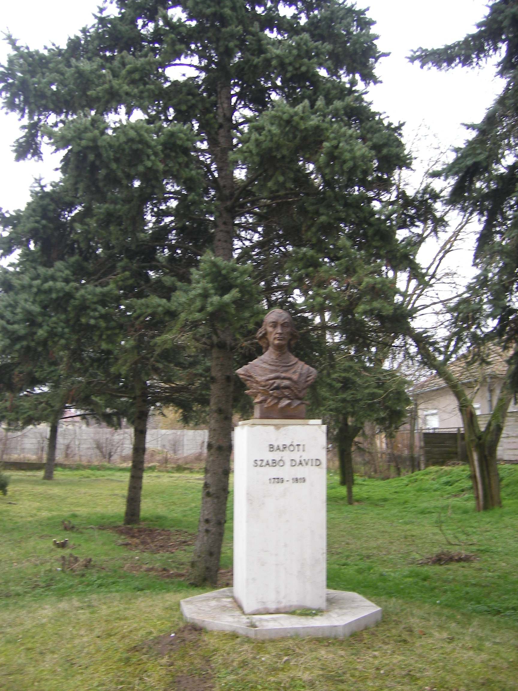 Marcelová, statue of poet Baróti Szabó Dávid.